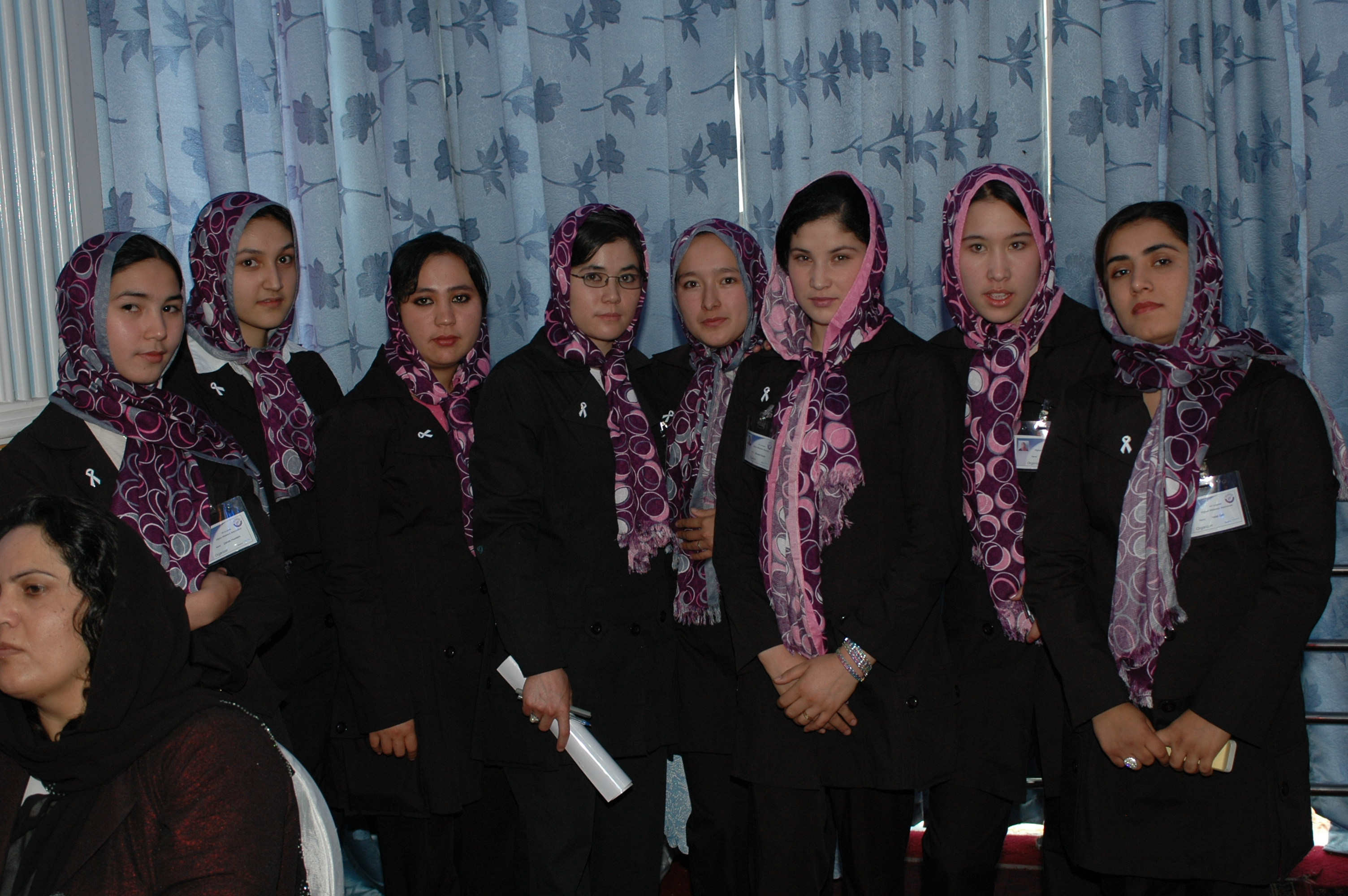 Afghan Midwives Association hosts Sixth Annual Midwives Congress in Kabul, Afghanistan.